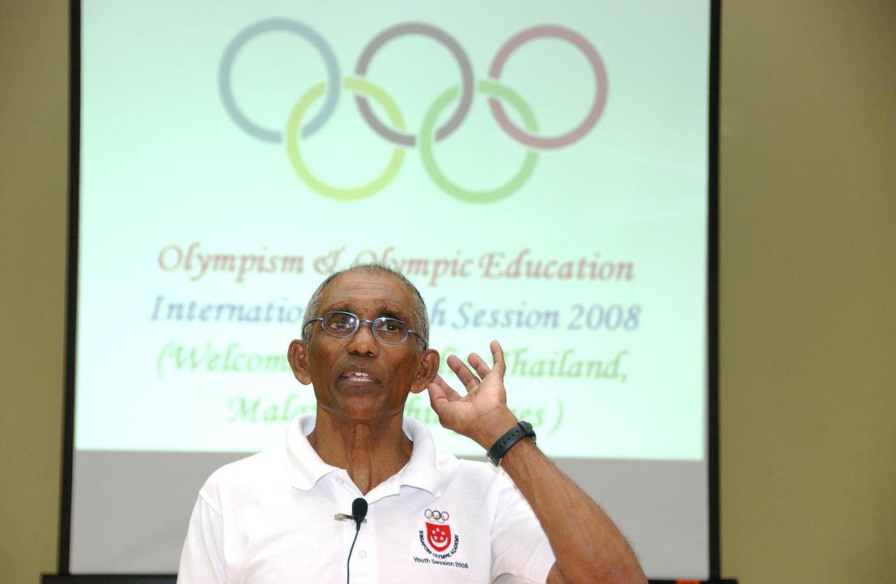 Former national sprinter C. Kunalan at a Singapore Olympic Academy Youth Session.